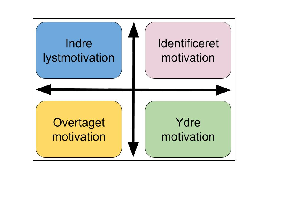 A schematical view of the motivations for actions, as described by Sheldon. Danish language.